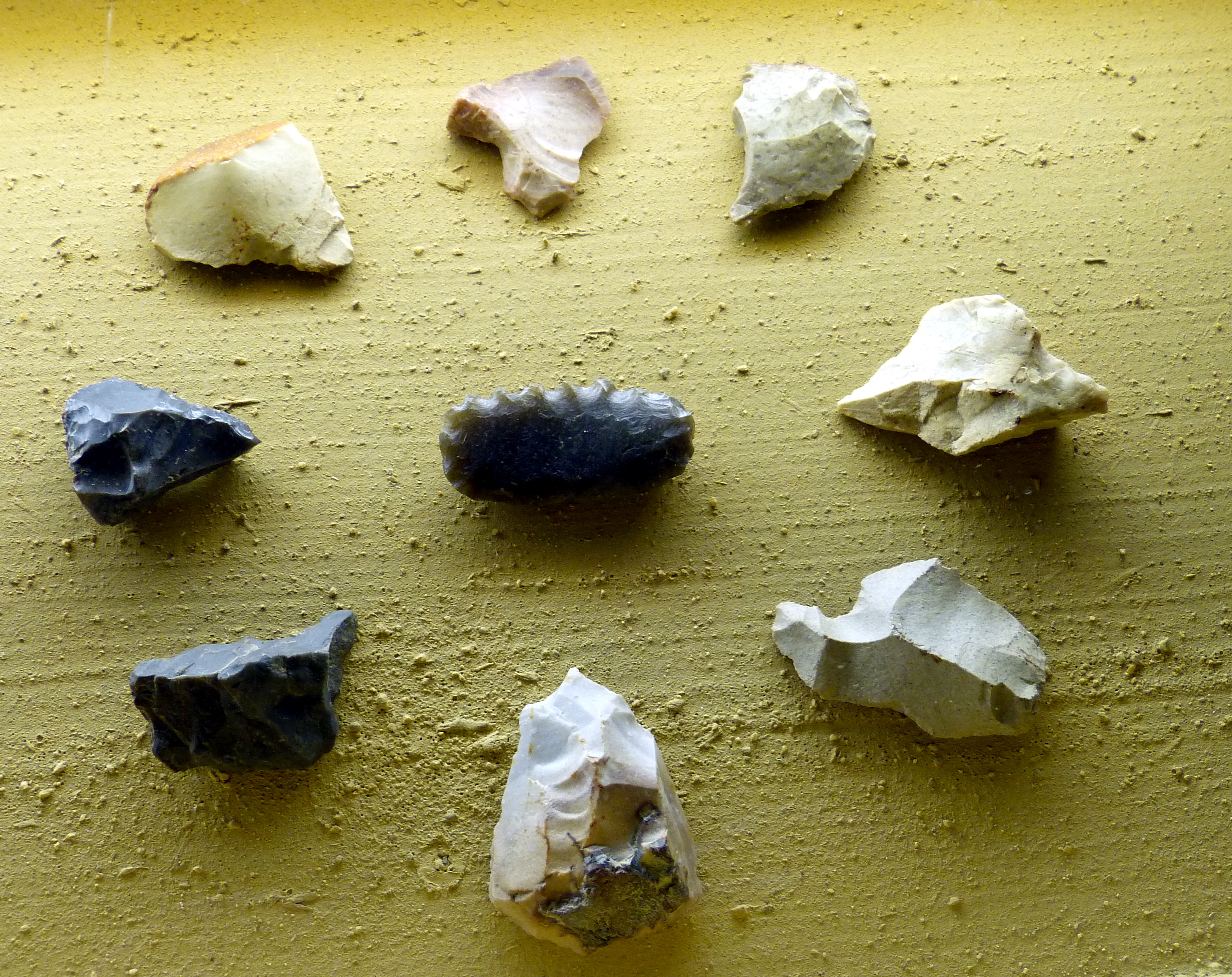 Sarleinsbach ( Upper Austria ). Stone age museum in Ohnerstorf: Neolithic tools of the Cham culture, found in Niederkappel.